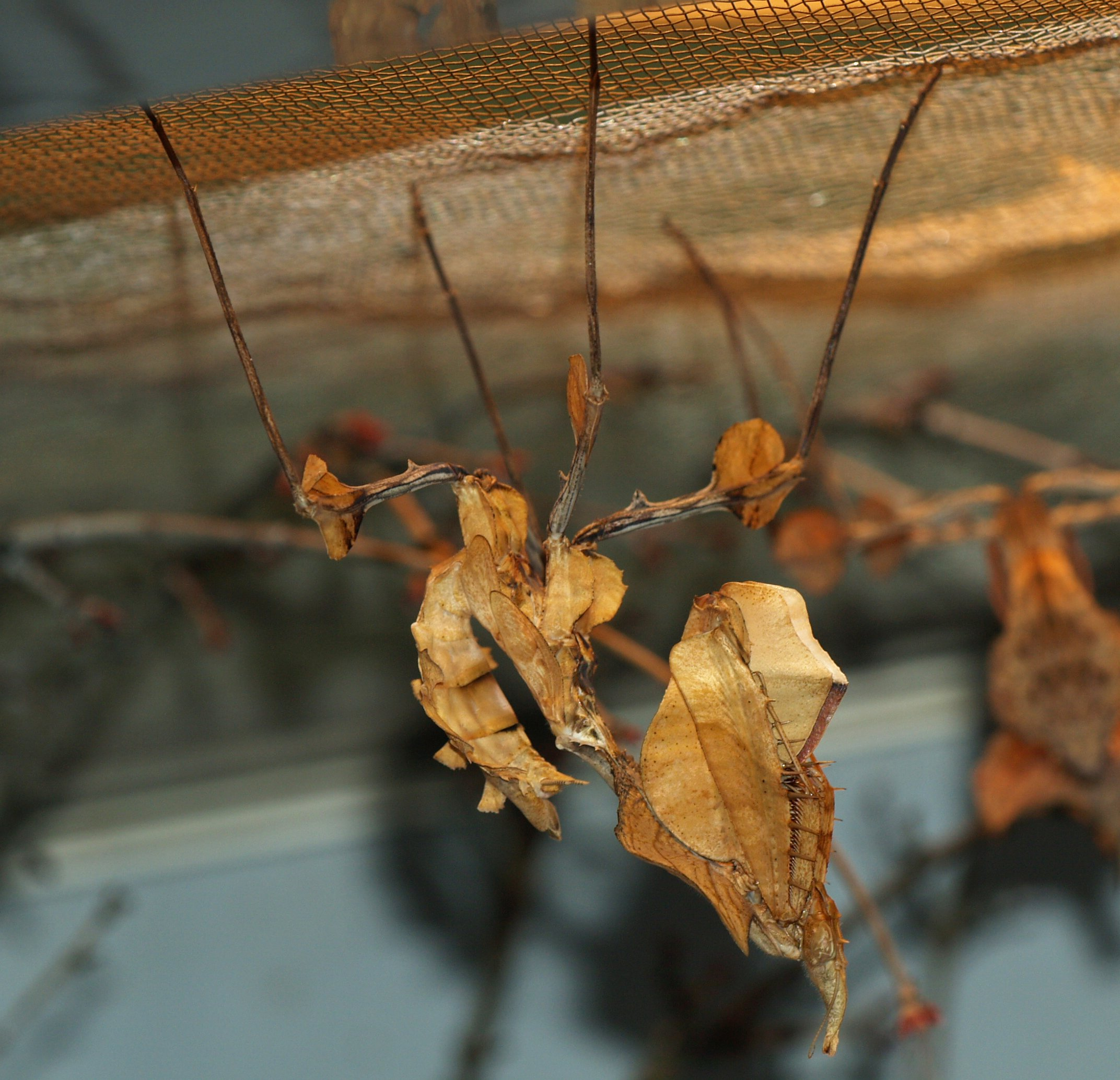 Idolomantis diabolicum from Cologne Zoo, Germany.